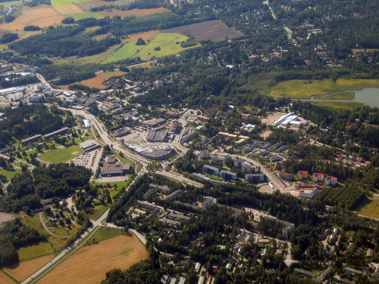 Aerial view of Hyrylä, Tuusula, Finland